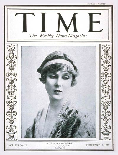 Cover of Time Magazine (February 15, 1926) w/ Lady Diana Manners